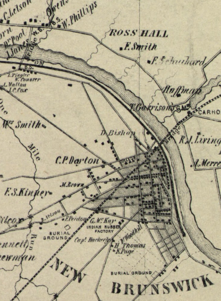 Detail showing Ross Hall and local area, including New Brunswick